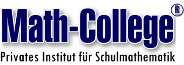 Logo of the Institute "Math-College" from 2004